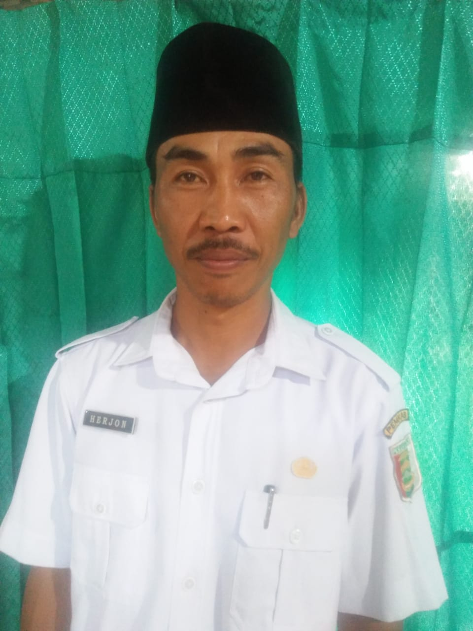 Bayan 1 kagungan ratu